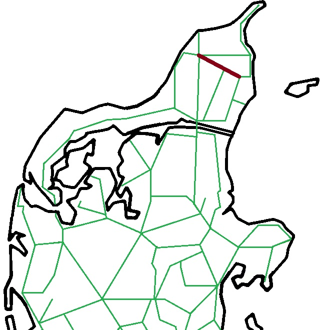 Map of railways in Northern Jutland in Denmark with the private railway Hjørring-Hørby Jernbane in brown.